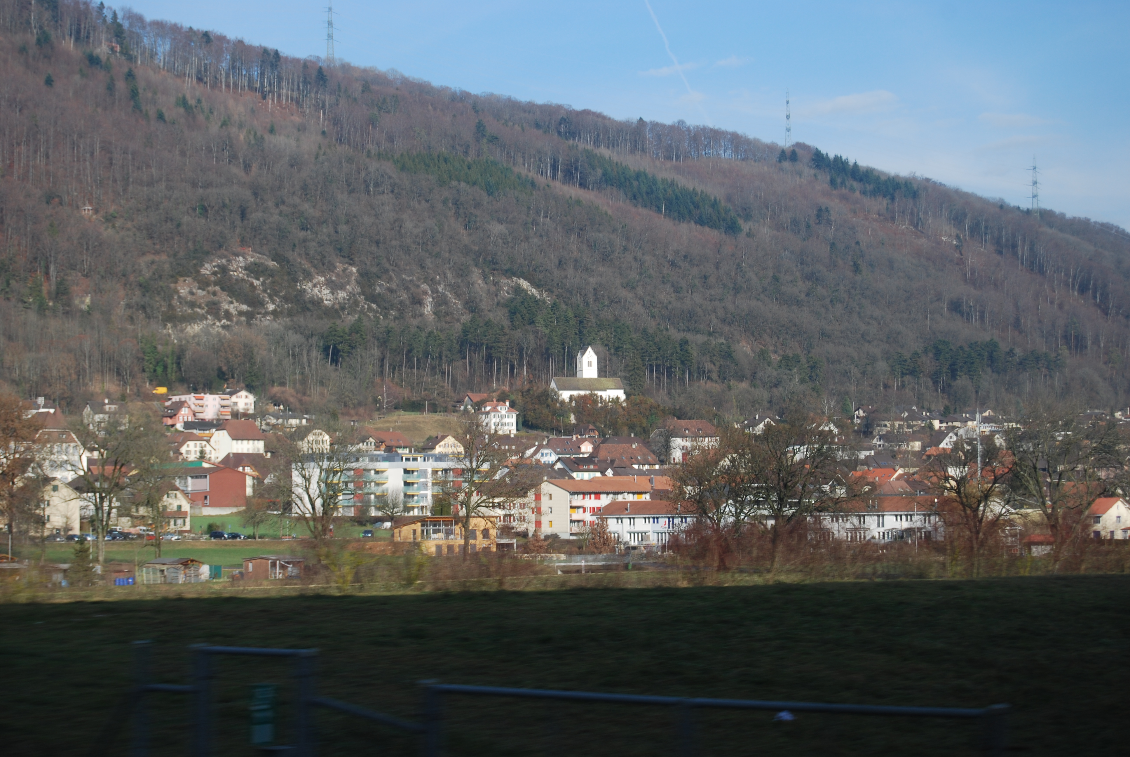 Pieterlen, canton of Bern, SwitzerlandEsperanto: Pieterlen, Kantono Berno, Svislando